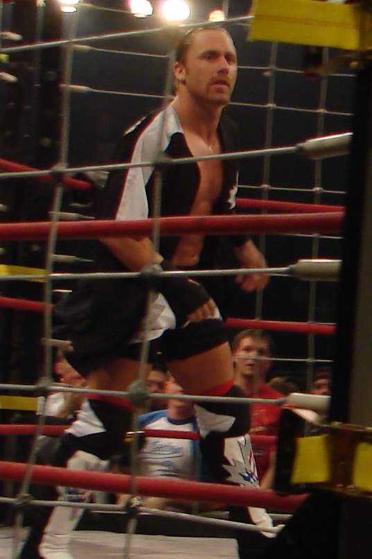 Petey Williams at Lockdown (2007). Family Arena, St. Charles, MO, April 15en:2007.